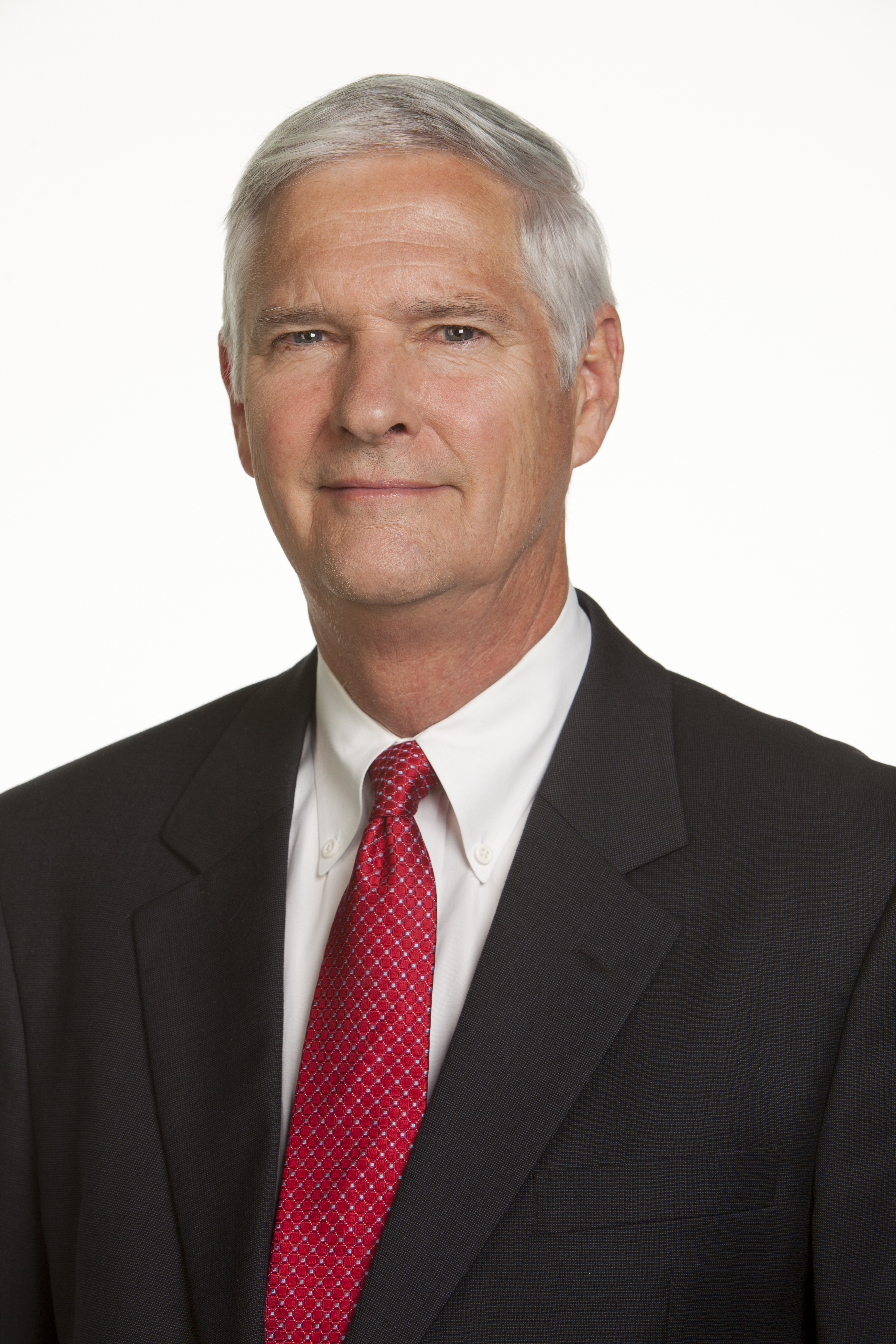 High Resolution